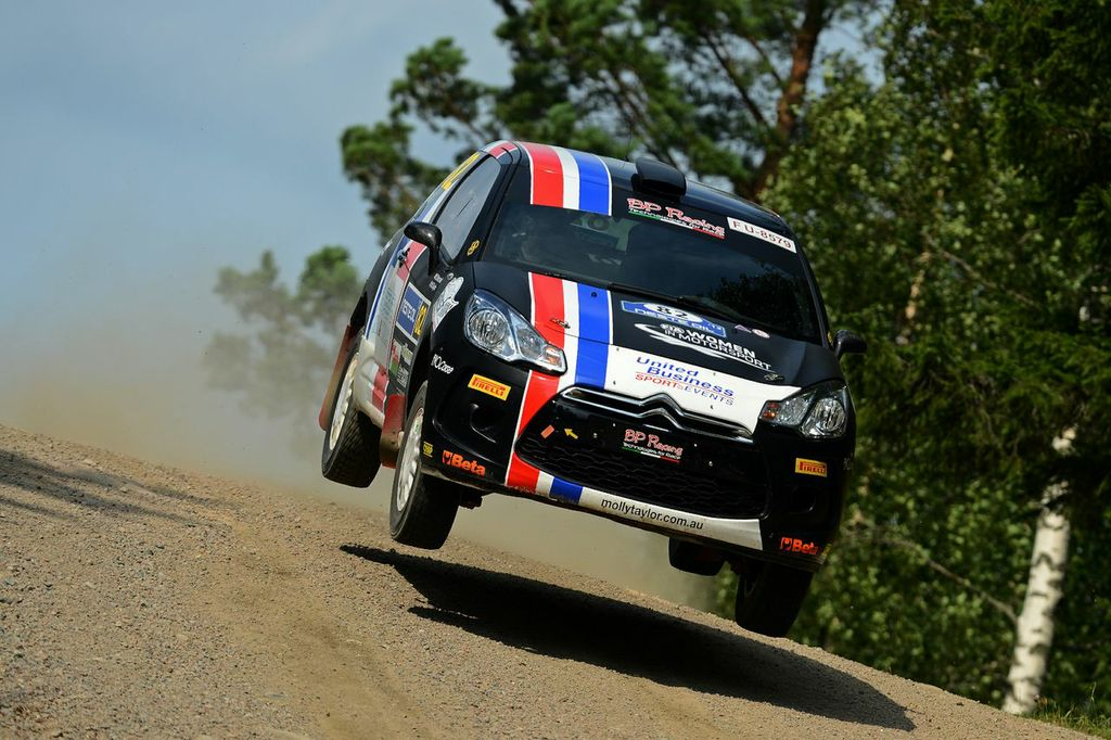 Molly Taylor driving rally car at 2012 Rally Finland.